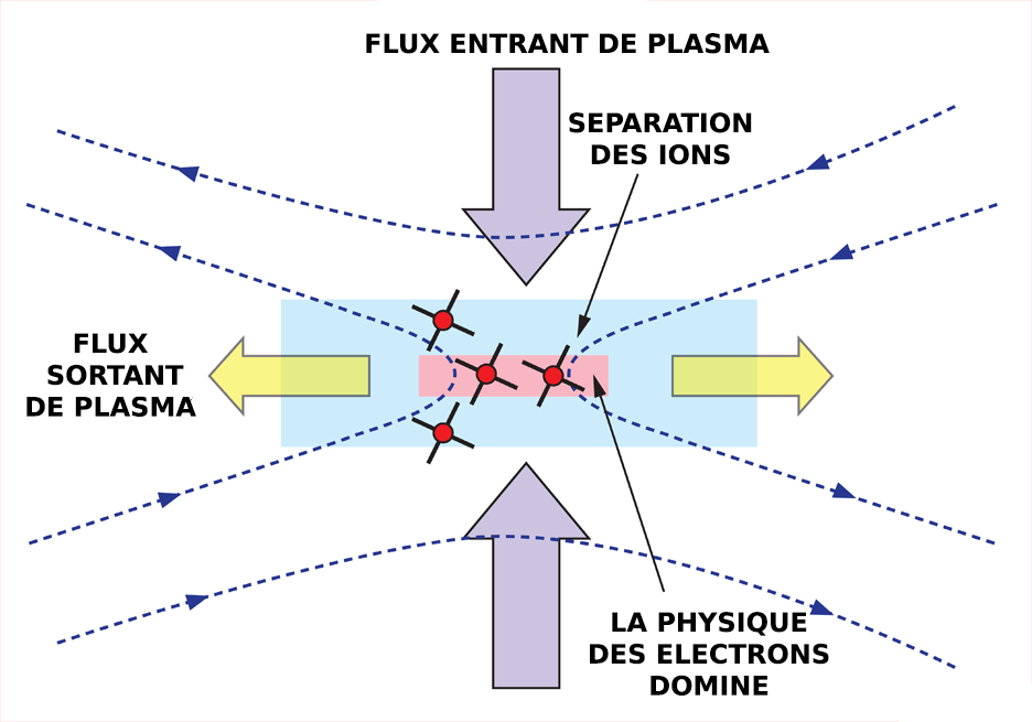 The magnetic reconnection process that happens in the Diffusion Region of the earth's magnetosphere